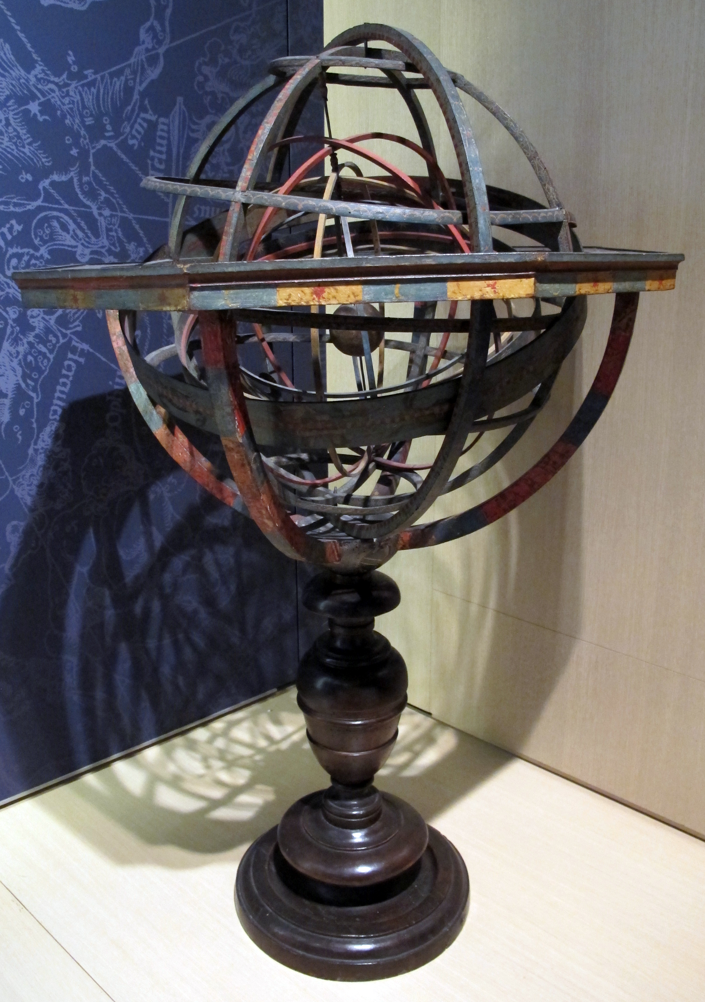 Collections of the Museo Galileo